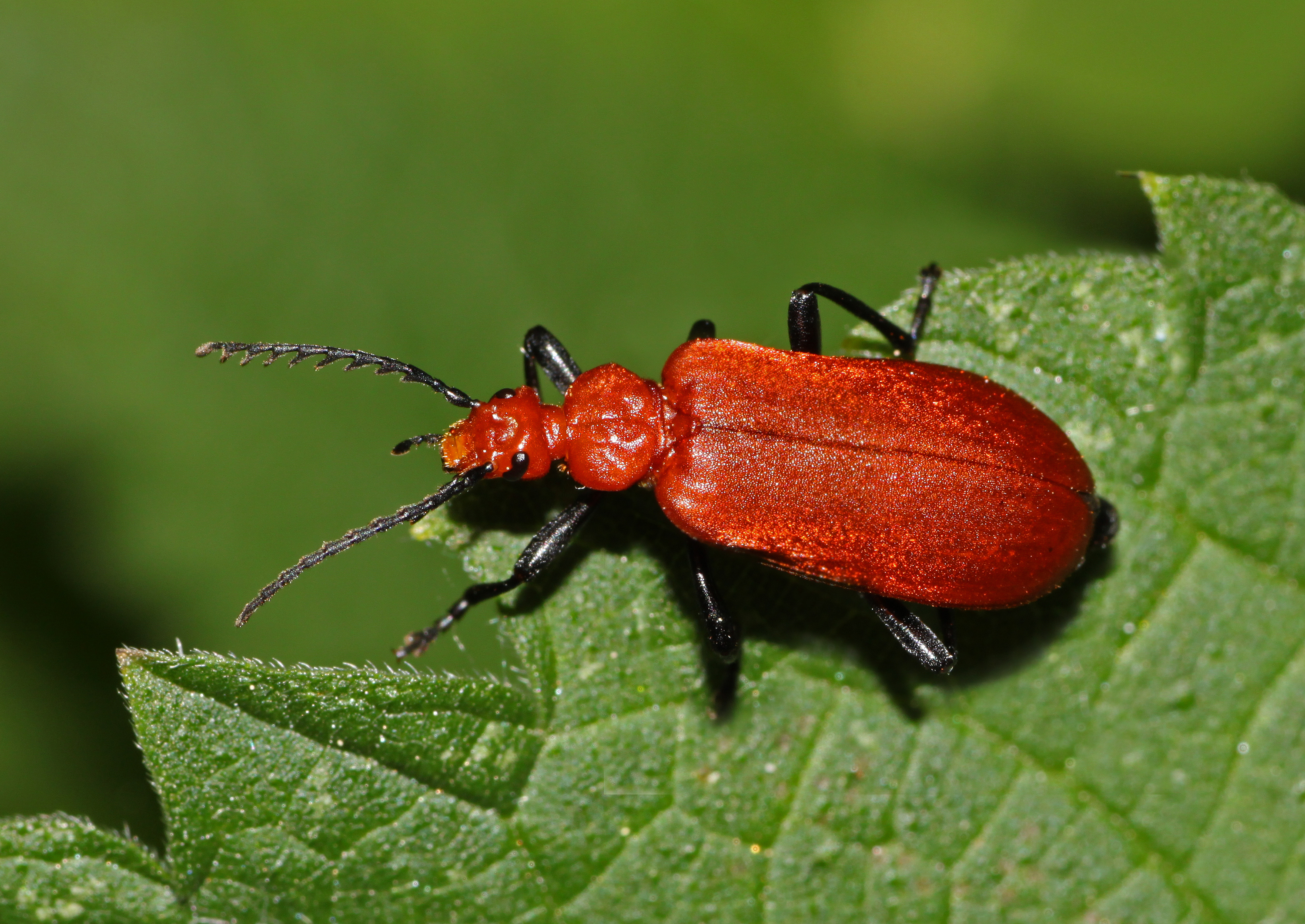 Cardinal Beetle, Pyrochroa serraticornis, Family: Pyrochroidae, Location: Germany, Beiningen